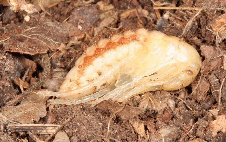 Pupa of ground beetle (Calosoma sycophanta)